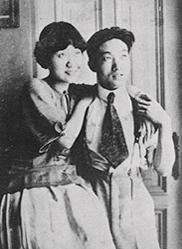 Xu Beihong and Jiang Biwei. with a painting given to them by Sanyu. Photo may be from the 1920s